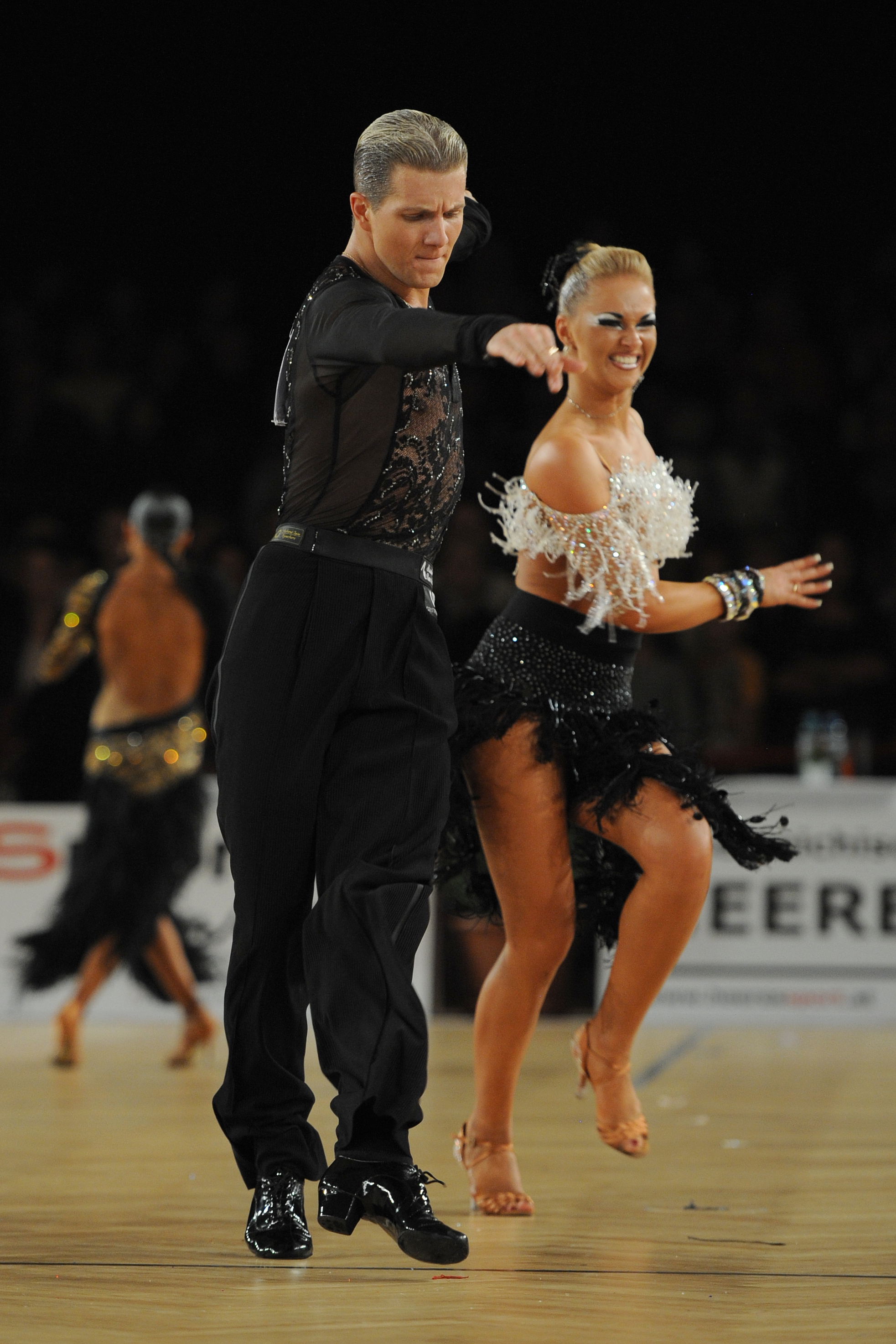 Austrian Open Championships Vienna, 2012 WDSF World Dancesport Championships Latin 16.-18. November 2012 The making of this work was supported by Wikimedia Austria. For other files made with the support of Wikimedia Austria, please see the category Supported by Wikimedia Österreich. Personality rights warning Although this work is freely licensed or in the public domain, the person(s) shown may have rights that legally restrict certain re-uses unless those depicted consent to such uses. In these cases, a model release or other evidence of consent could protect you from infringement claims.